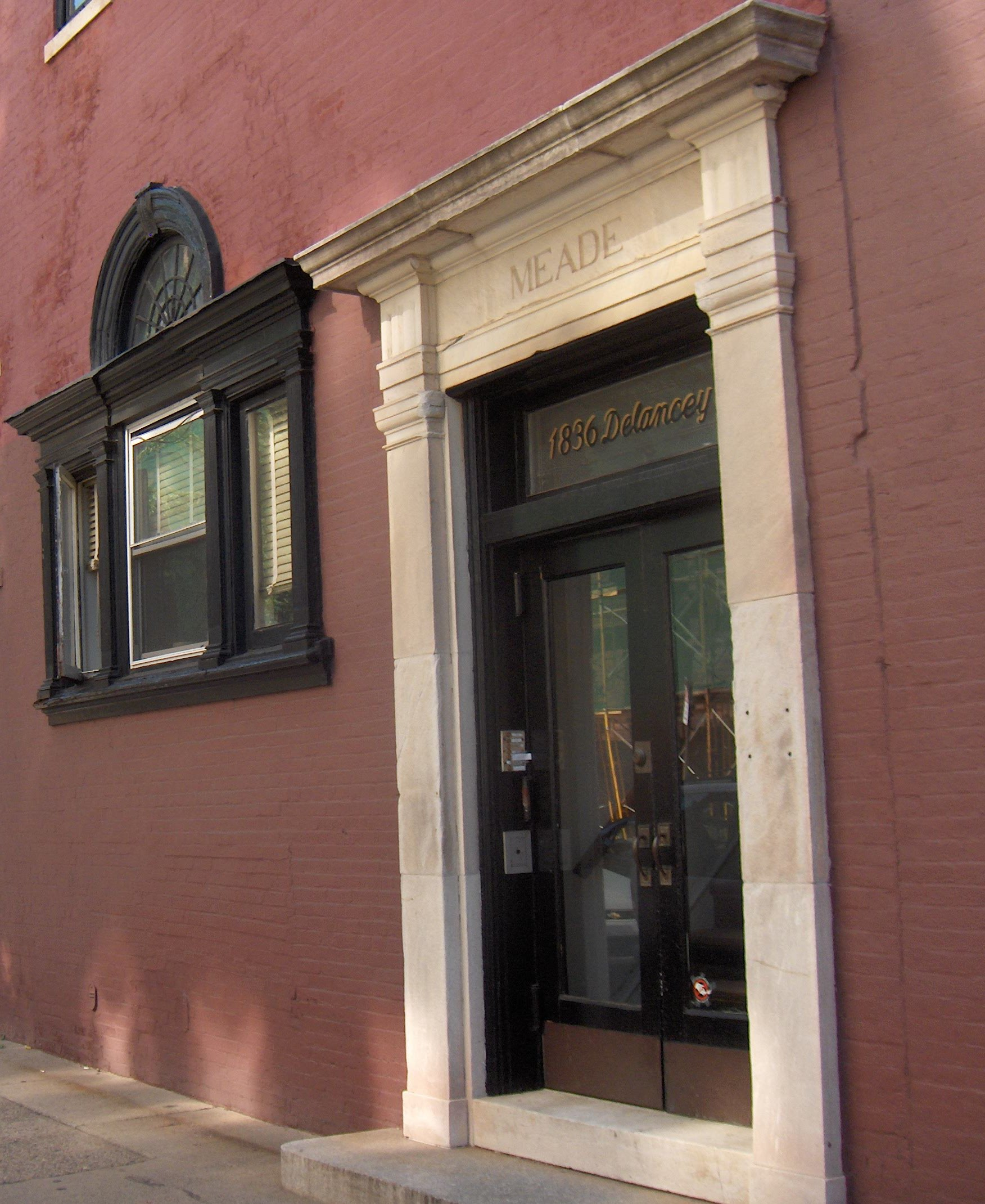 Phila_1836_Delancey_Street, Philadelphia, PA 19130. Built c. 1857, General George G. Meade lived here 1866 until his death in this house in 1872, given to his wife by the grateful citizens of Philadelphia. Sources: PHMC Marker in front of house, and Richard Webster's book, Philadelphia Restored, p. 127.